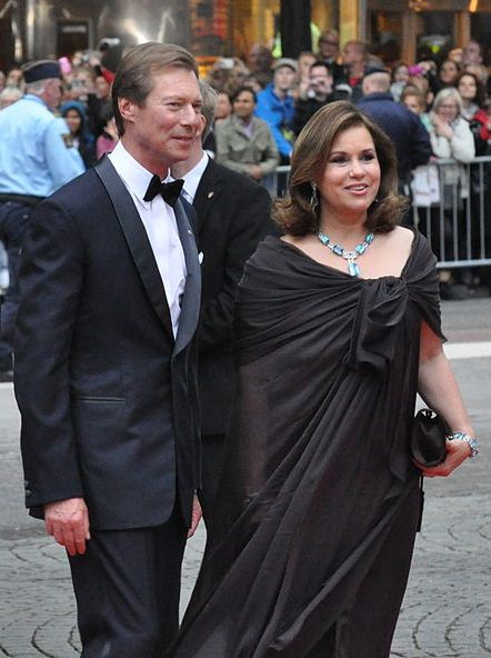 Wedding of Victoria, Crown Princess of Sweden, and Daniel Westling; Arrival of members for the Gouvernment and Swedish and foreign guests of hounour to the Riksdag's Gala Performance at Konserthuset